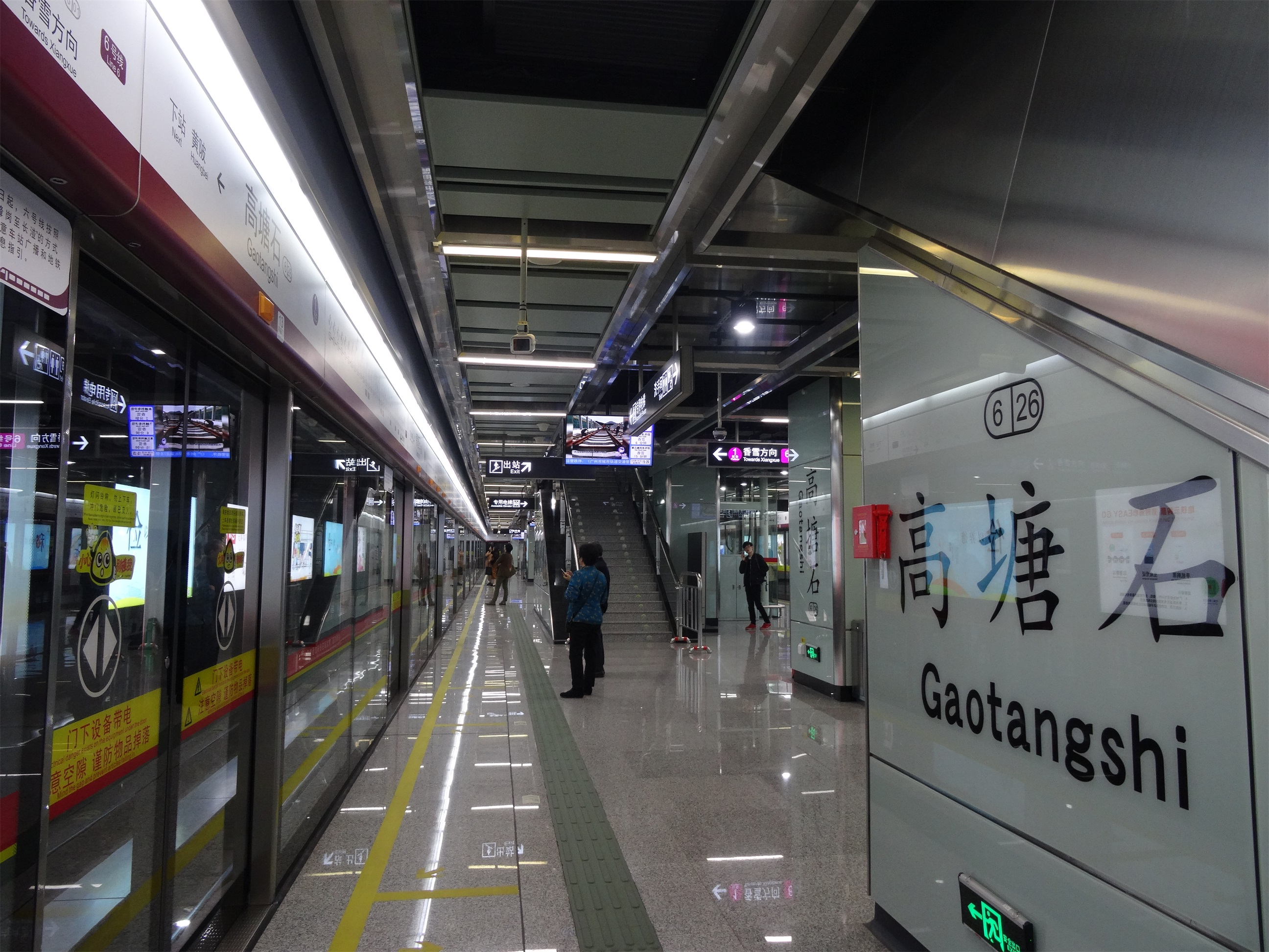 广州地铁6号线高塘石站月台